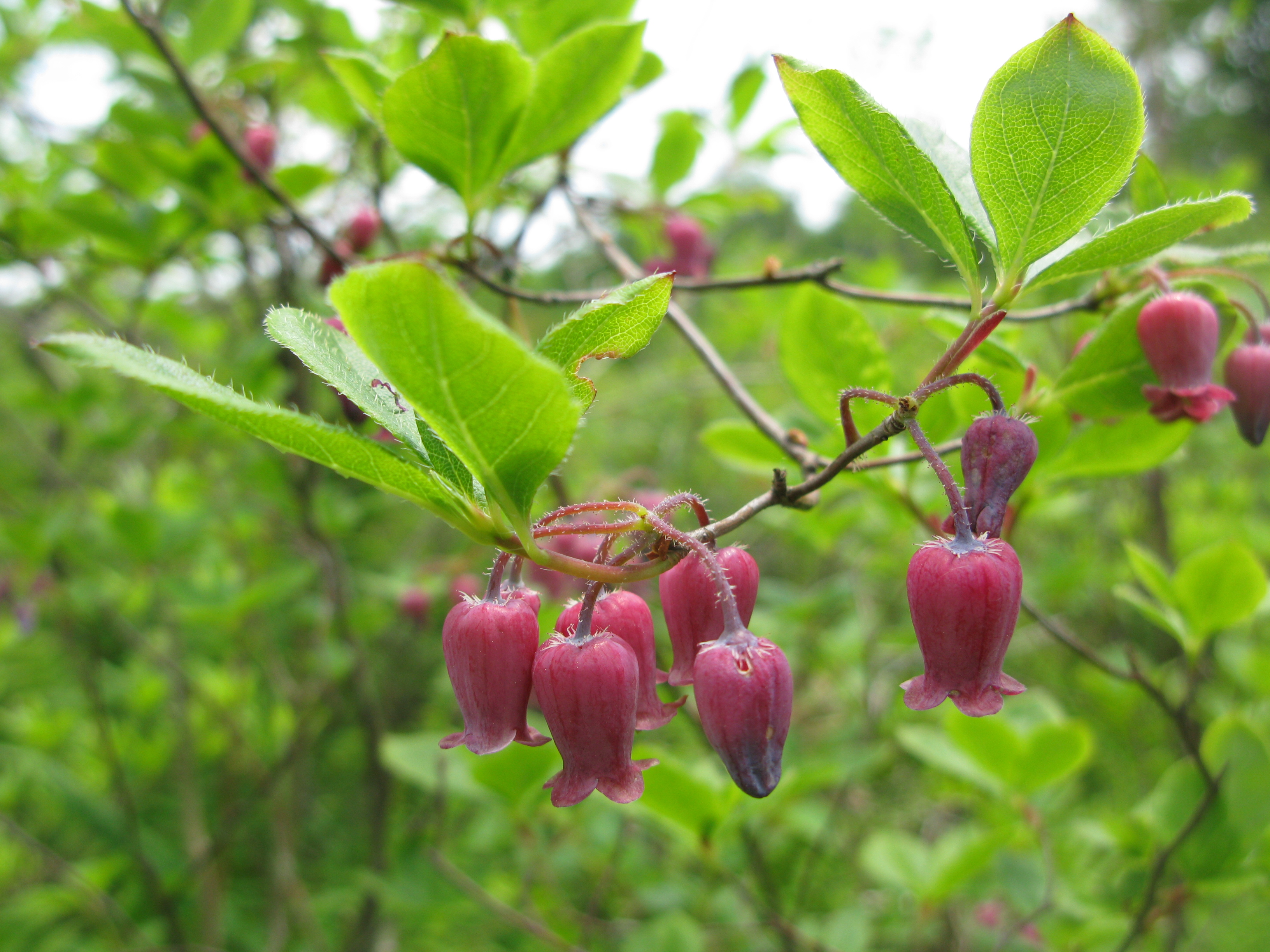 Menziesia multiflora,Aizu area,Fukushima pref.,Japan